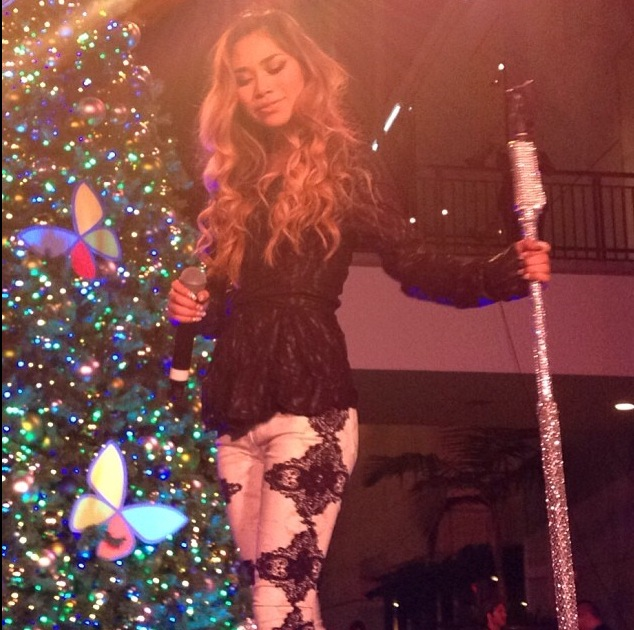 Jessica Sanchez performing at the Hollywood and Highland Tree Lighting